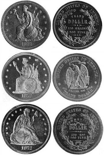 Photographs of three different pattern coins dated 1872